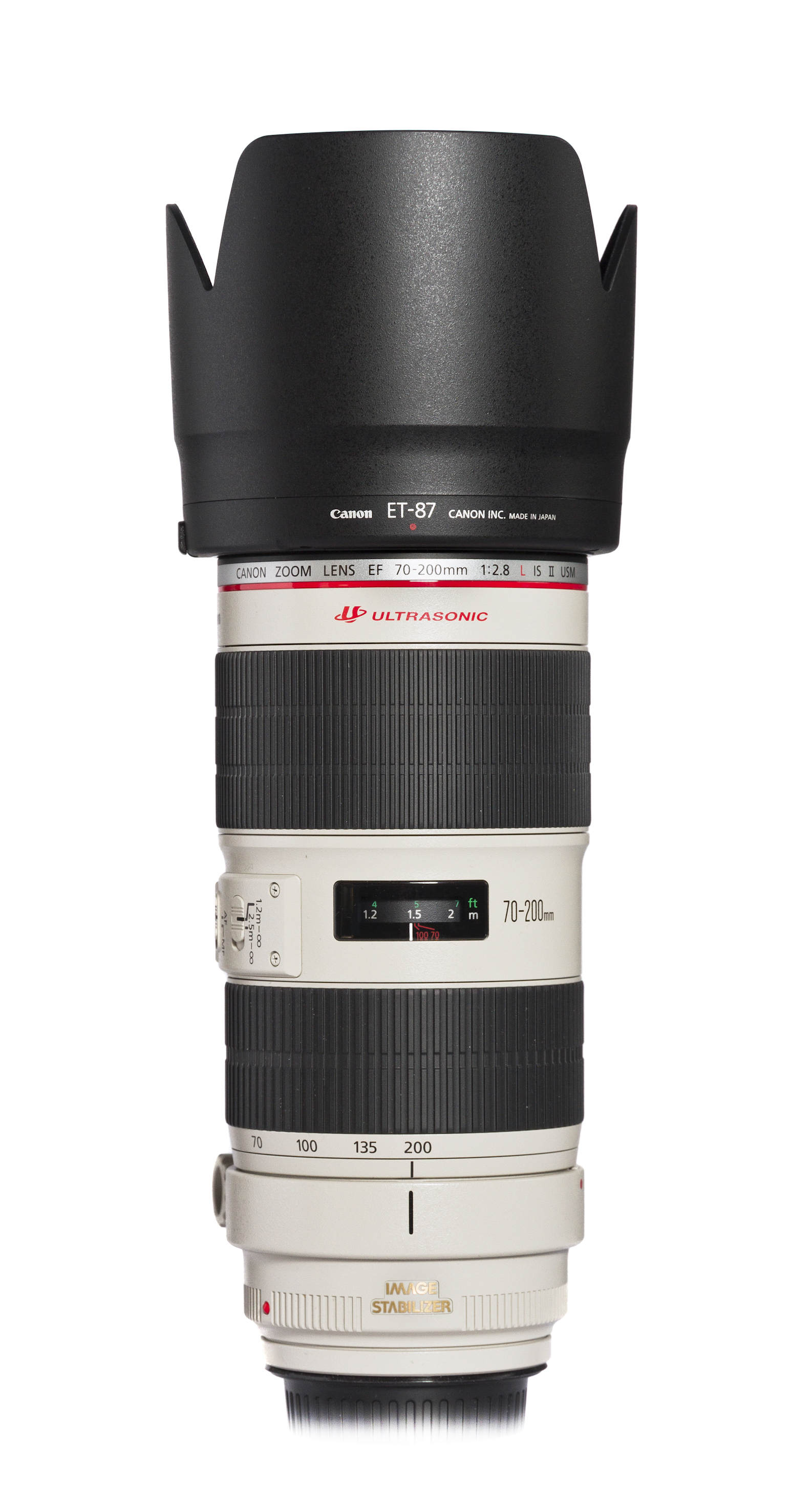 Canon EF 70-200mm f2.8L IS II USM lens with Canon ET-87 lens hood photographed in 2013 November.